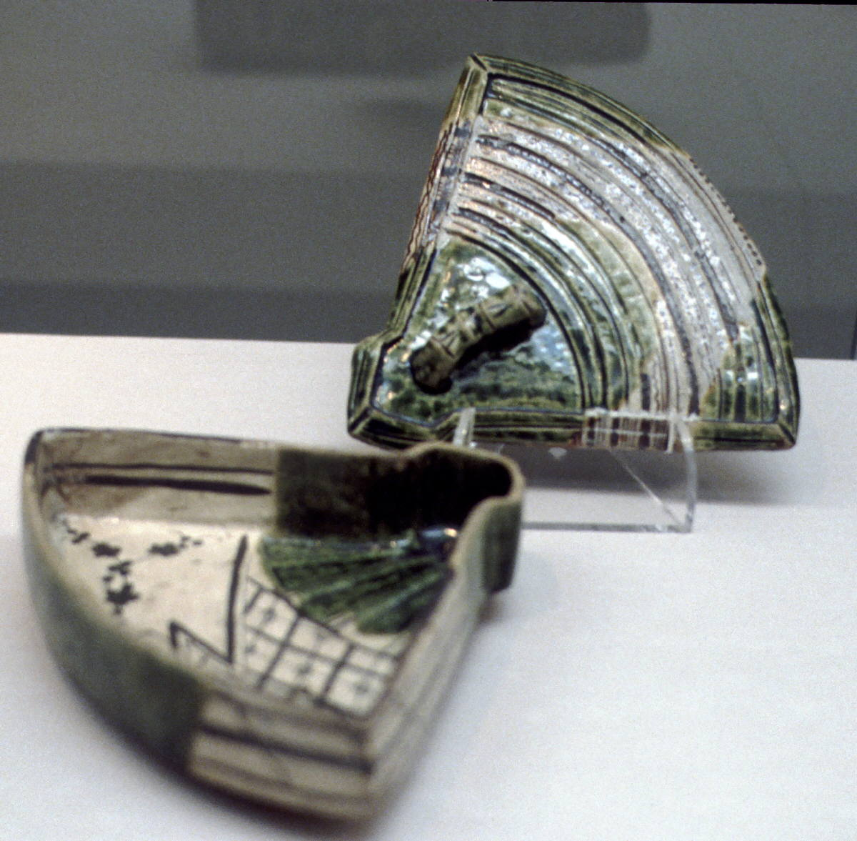 Dish with Lid, ORIBE-ware, Stoneware green and black glazed, about 7 inches, in Tokyo National Museum,Tokyo, Japan